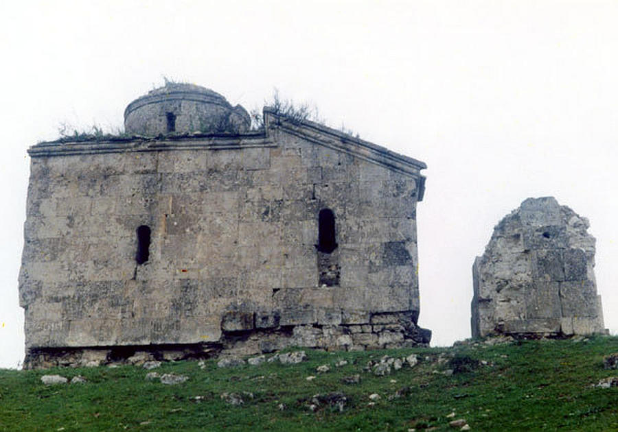 Saint Sargis Monastery of Gag.